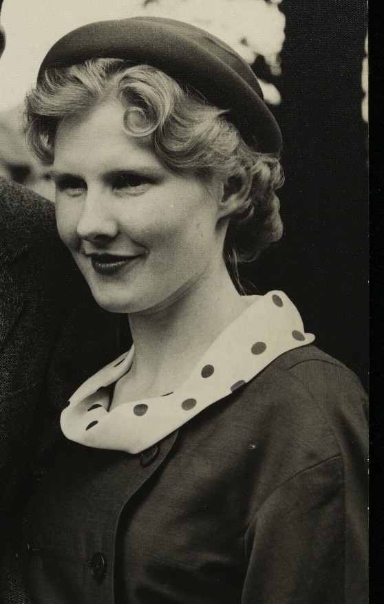 Photograph of Kenneth & Noreen Murray This file was uploaded as part of a GLAMWiki partnership with the University of Edinburgh. This tag does not indicate the copyright status of the attached work. A normal copyright tag is still required. See Commons:Licensing for more information.